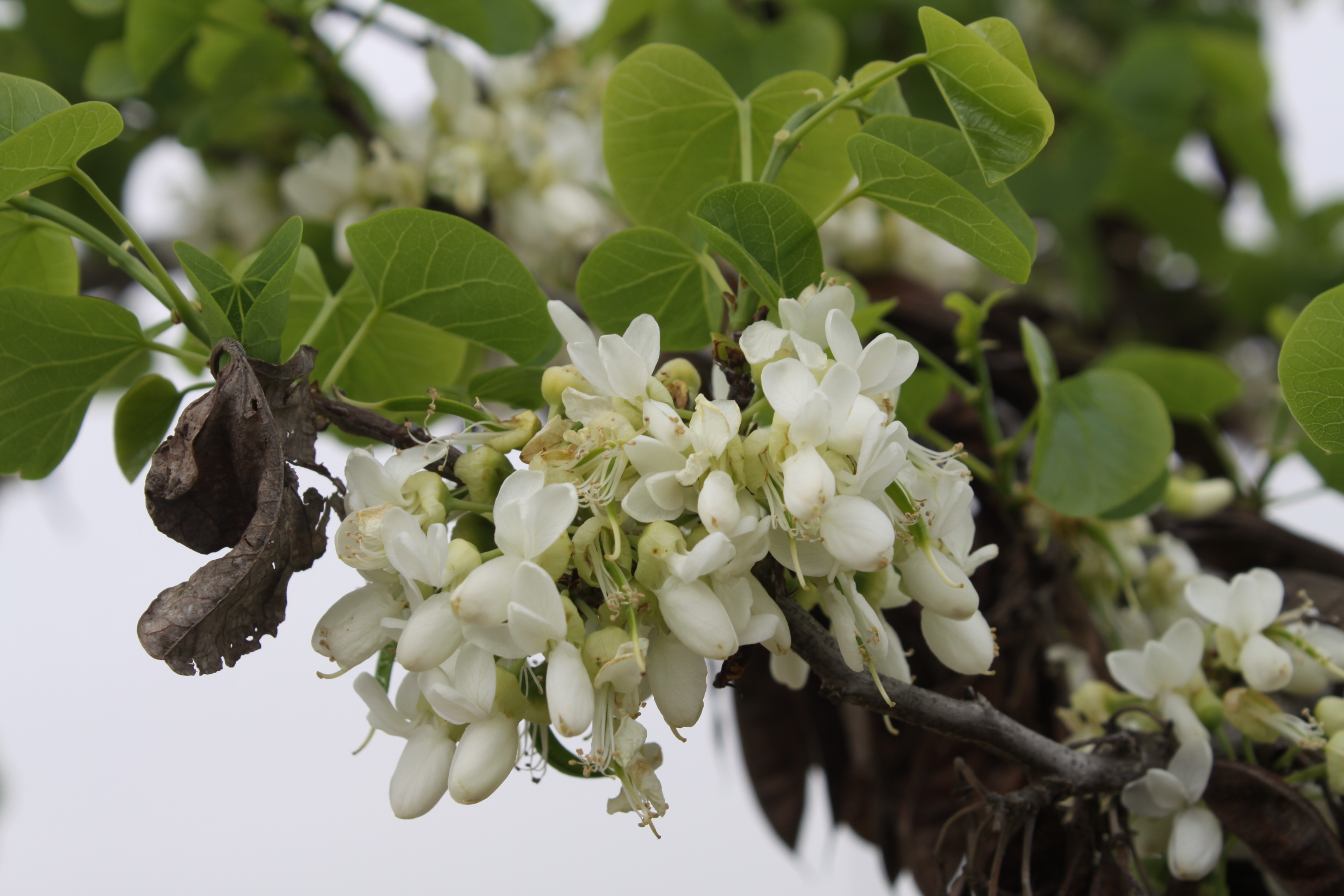 klil david\'s blooming